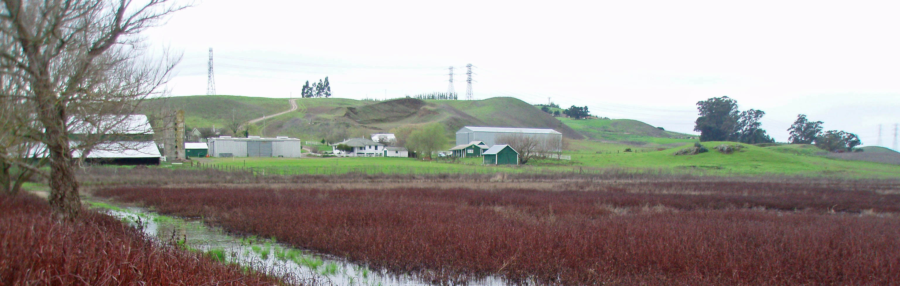 photographer:self